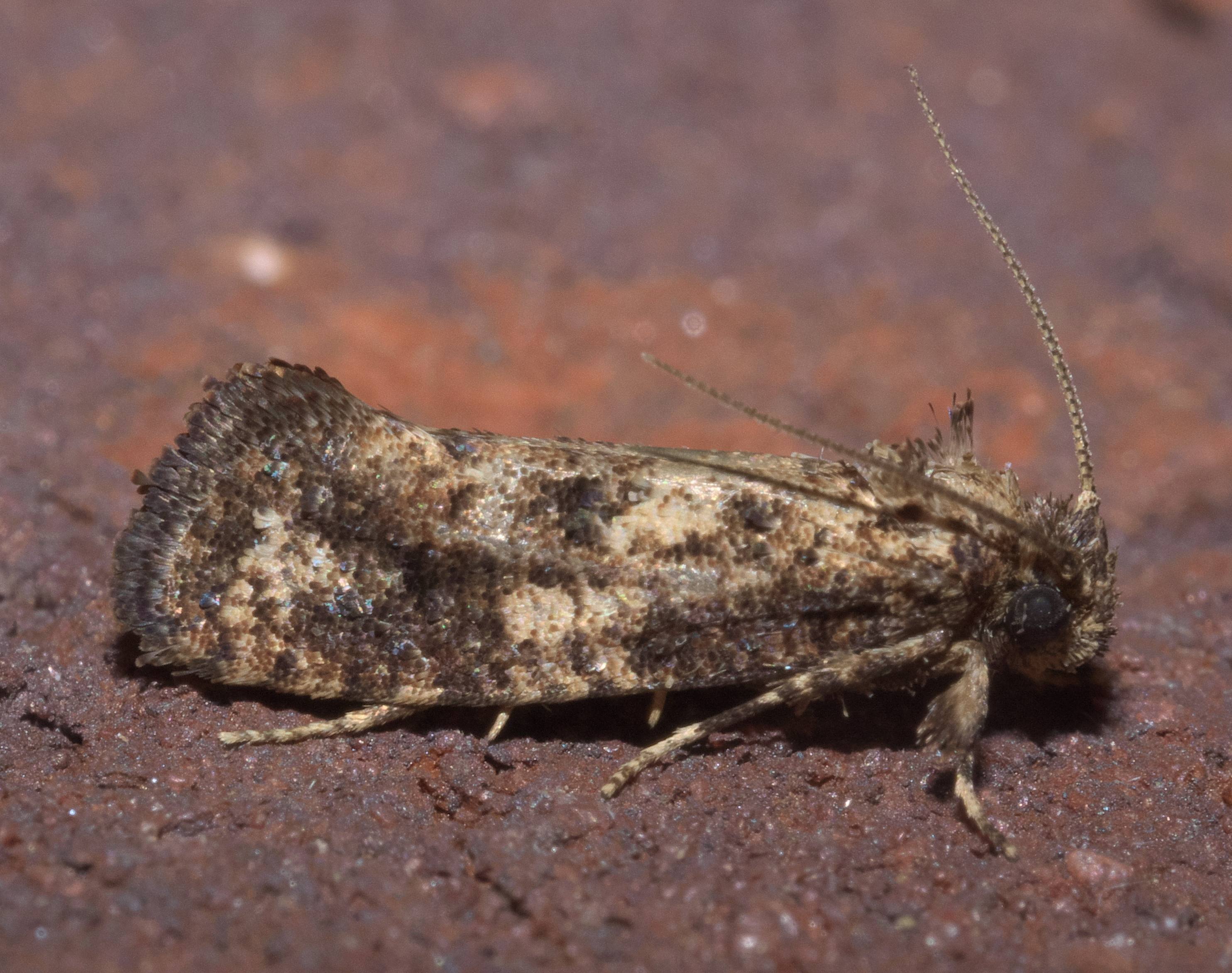 Acrolophus cressoni, Cresson's grass tubeworm, Size: 8.8 mm, ID Confidence: 88